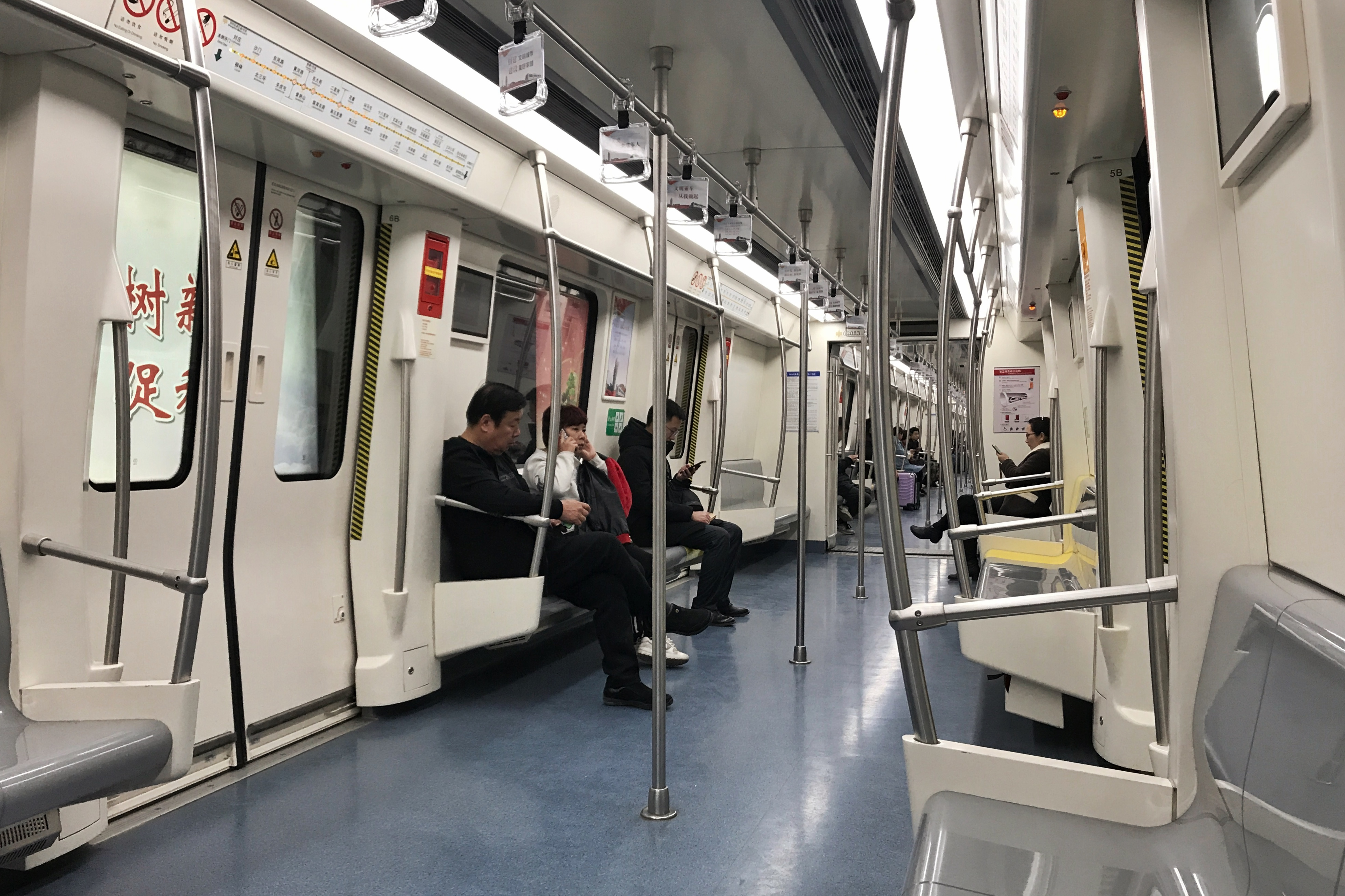 Interior of trains on Line 2, Zhengzhou Metro